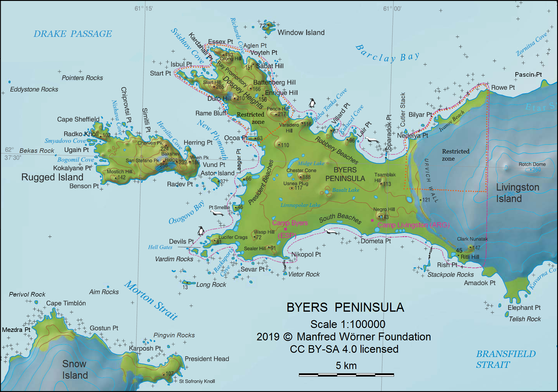 L.L. Ivanov. Antarctia: Byers Peninsula. Scale 1:100000 topographic map. Manfred Wörner Foundation, 2019. Revised and updated version of the relevant fragment of the author’s 2010 map of Livingston Island and Greenwich, Robert, Snow and Smith Islands.